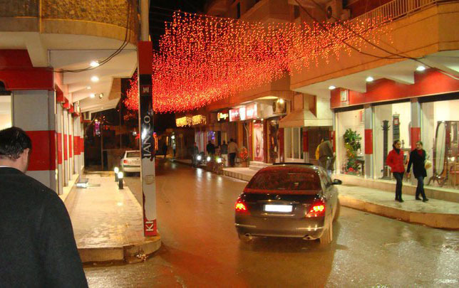 Night in Qamishli, Syria.